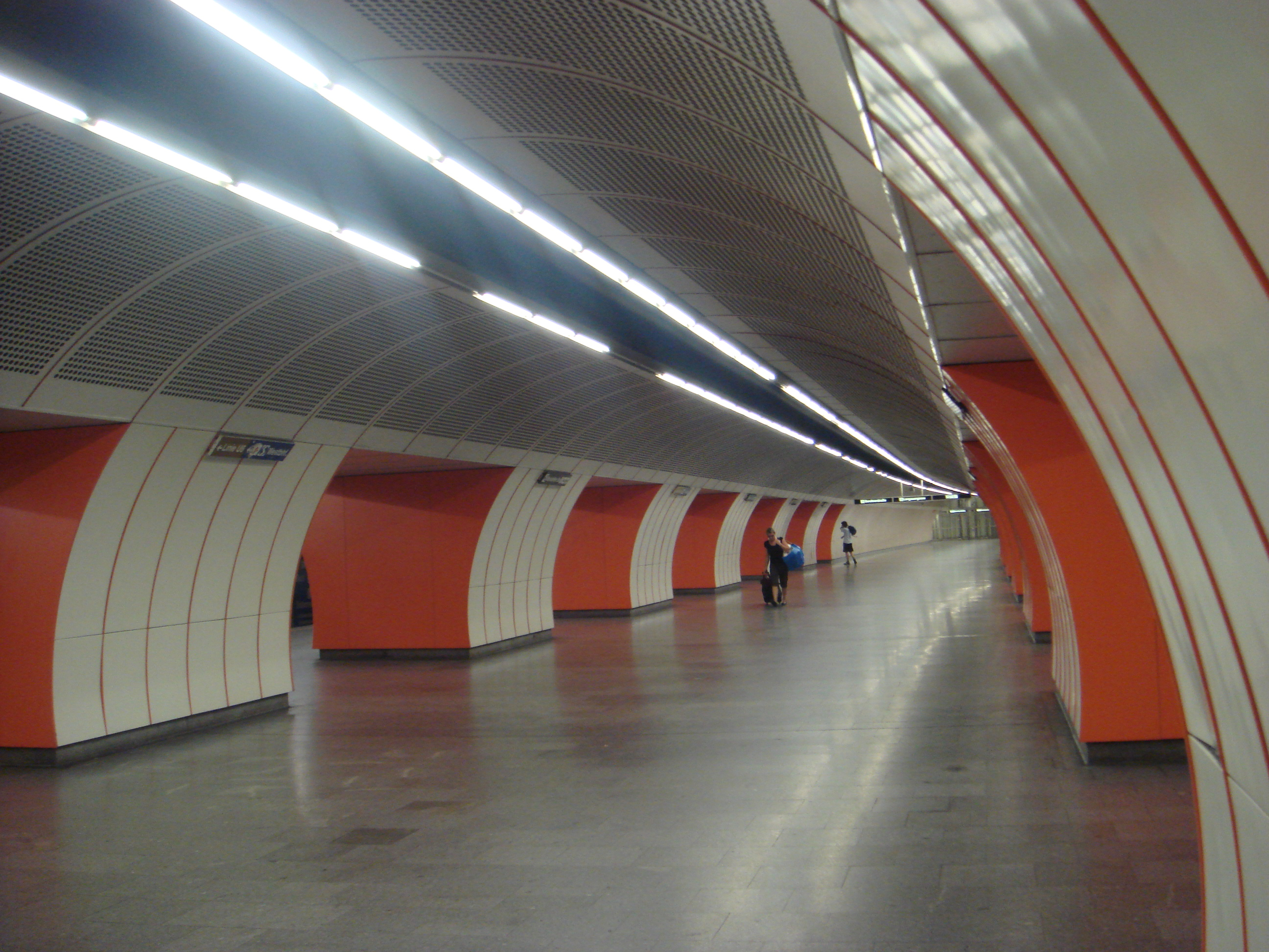 The U3 underground station at Wien Westbahnhof, Vienna.